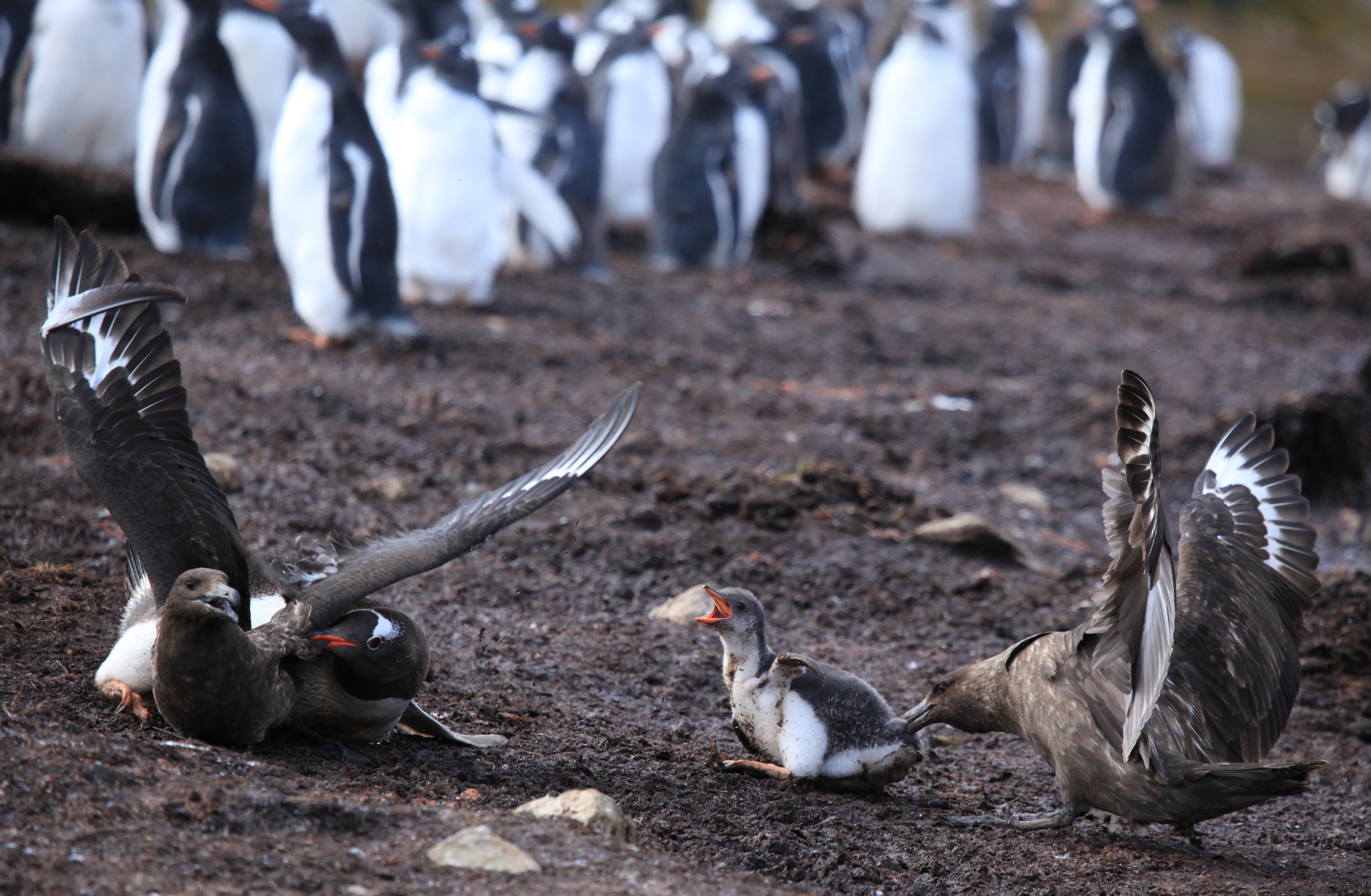 A Gentoo penguin bites into a Brown Skua as another Skua steals the Penguin Chick at Godthul, South Georgia.